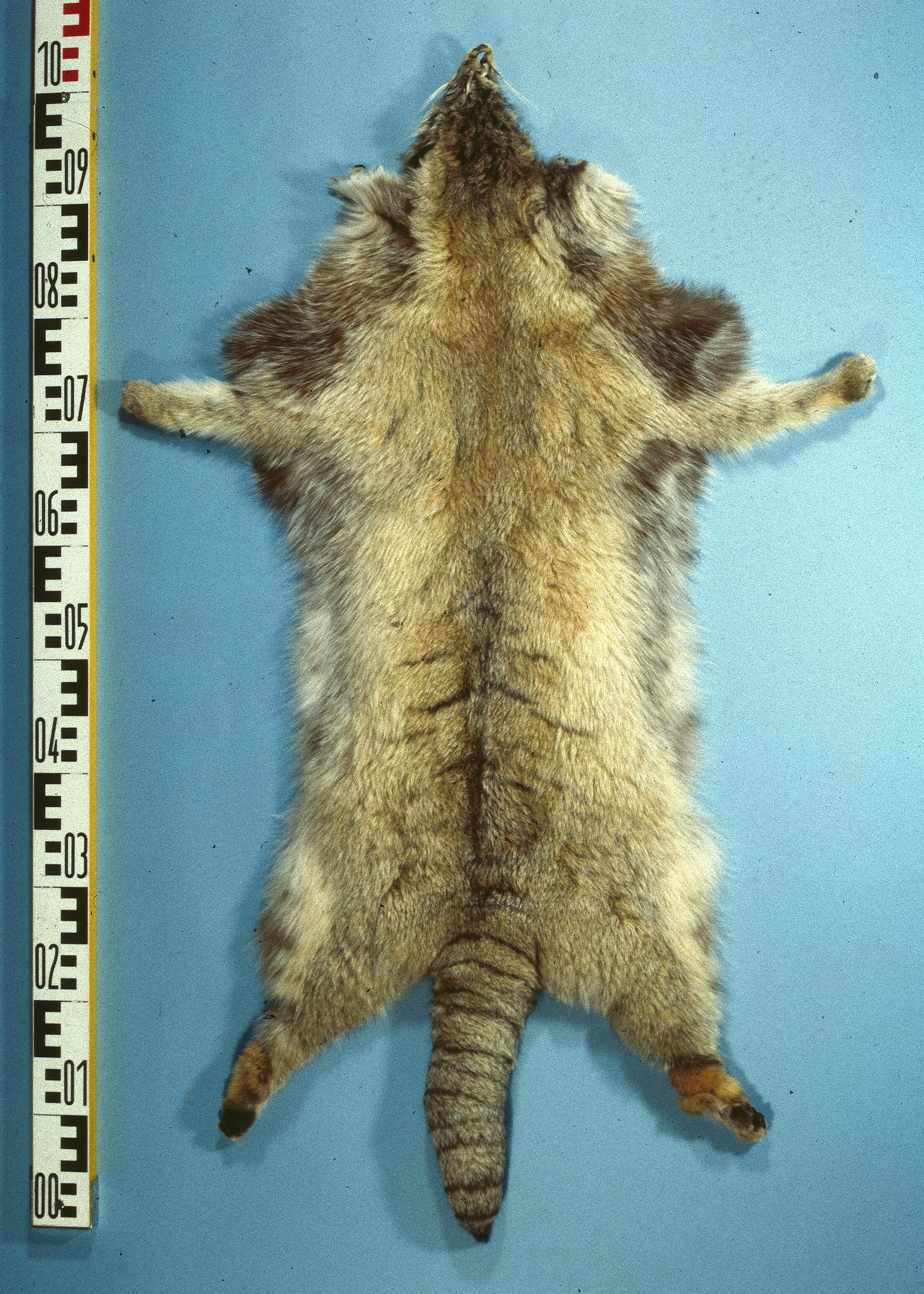 Manul fur skin (Otocolobus manul). Fur skin collection, Bundes-Pelzfachschule, Frankfurt/Main, Germany